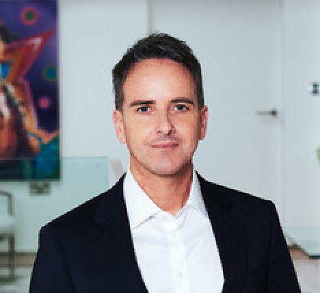 Sacha Lord - May 2020